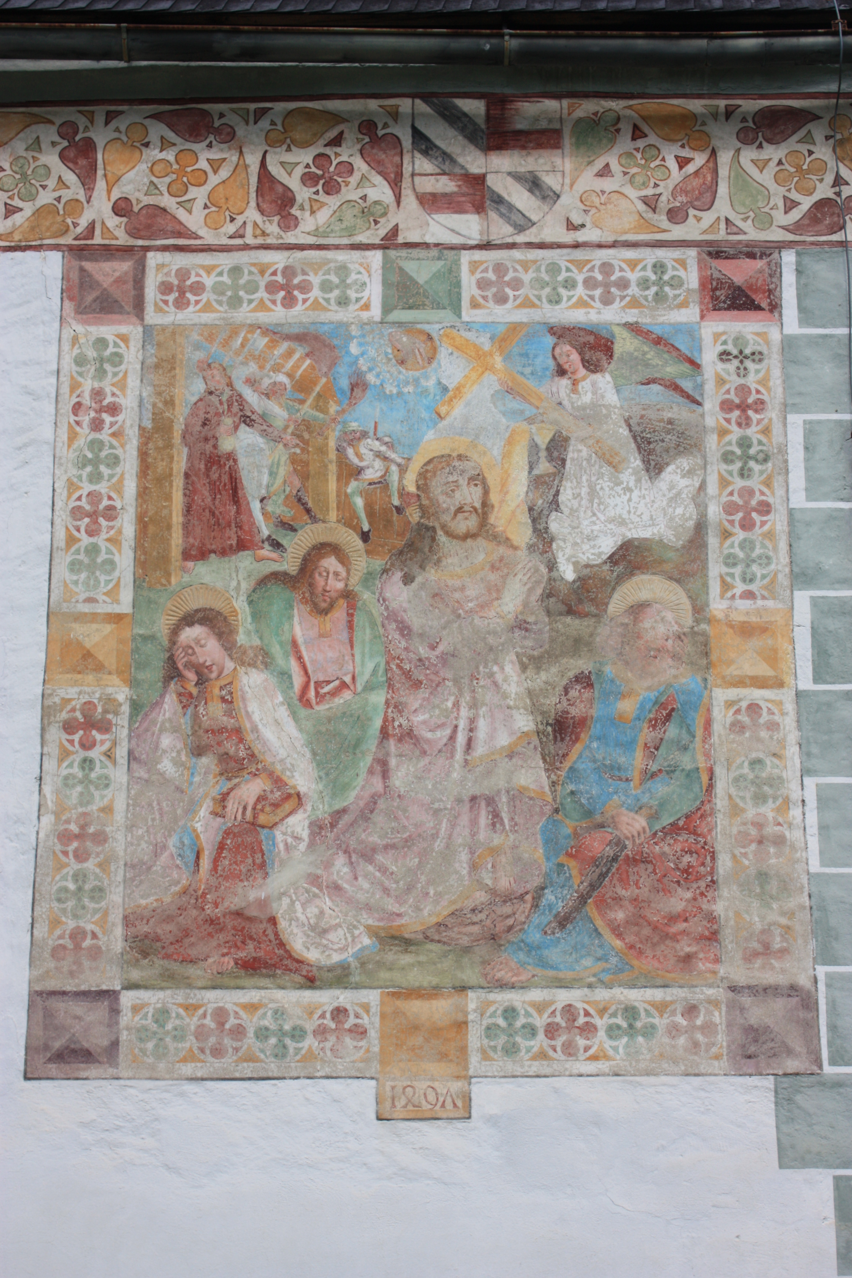 Parish church Saint Maximilian: Christ on the Mount of Olives Locality:Treffen Community:Treffen